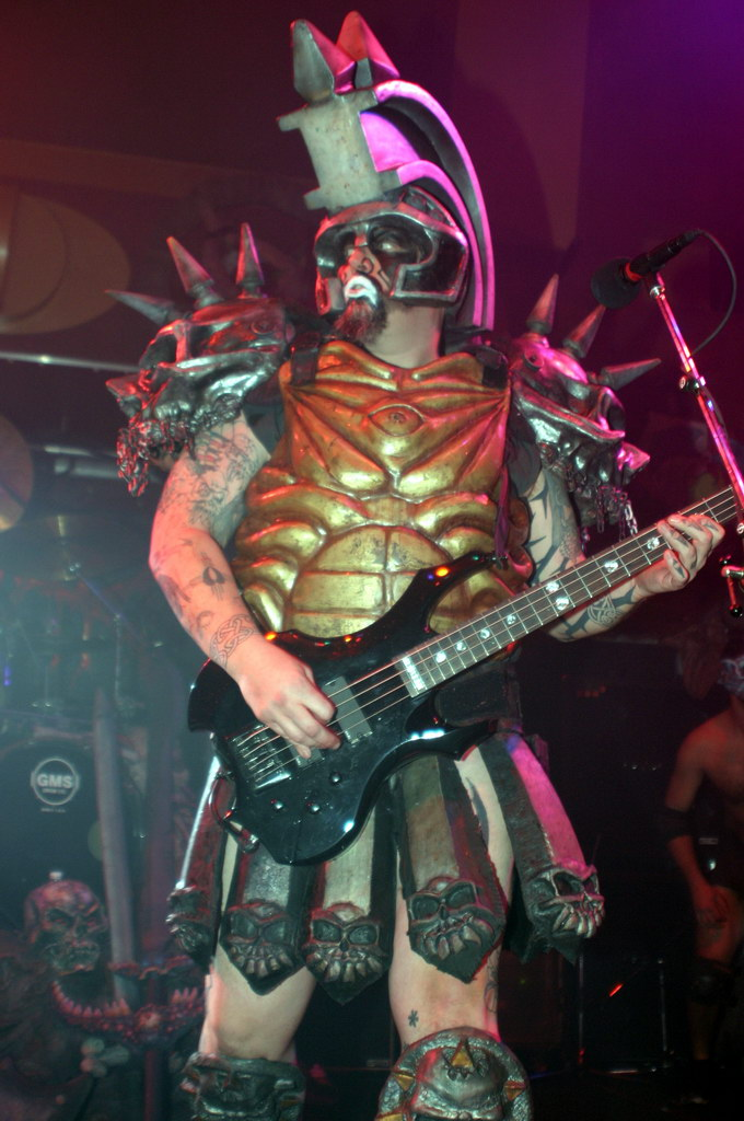 Beefcake the Mighty of GWAR Live in Concert